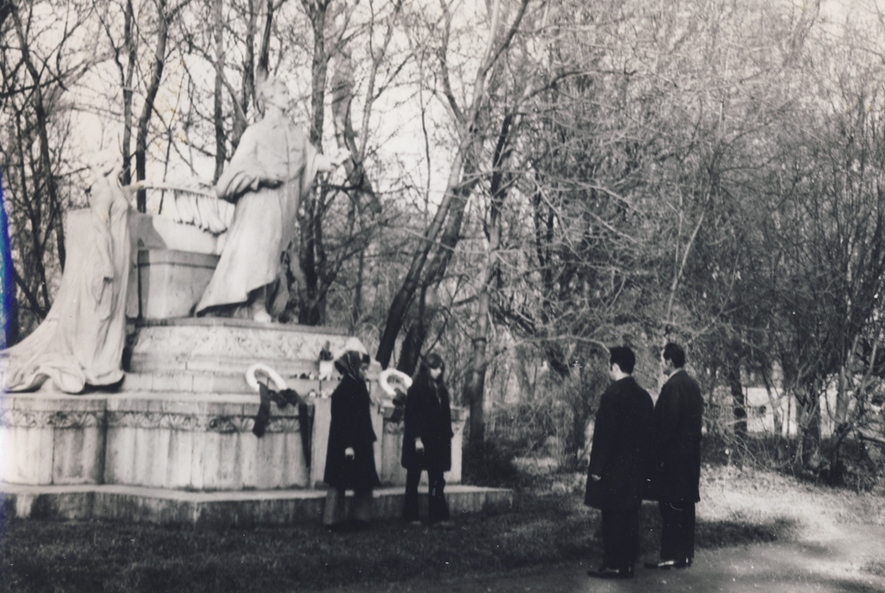 Statue of Petőfi on its earlier location in Petržalka